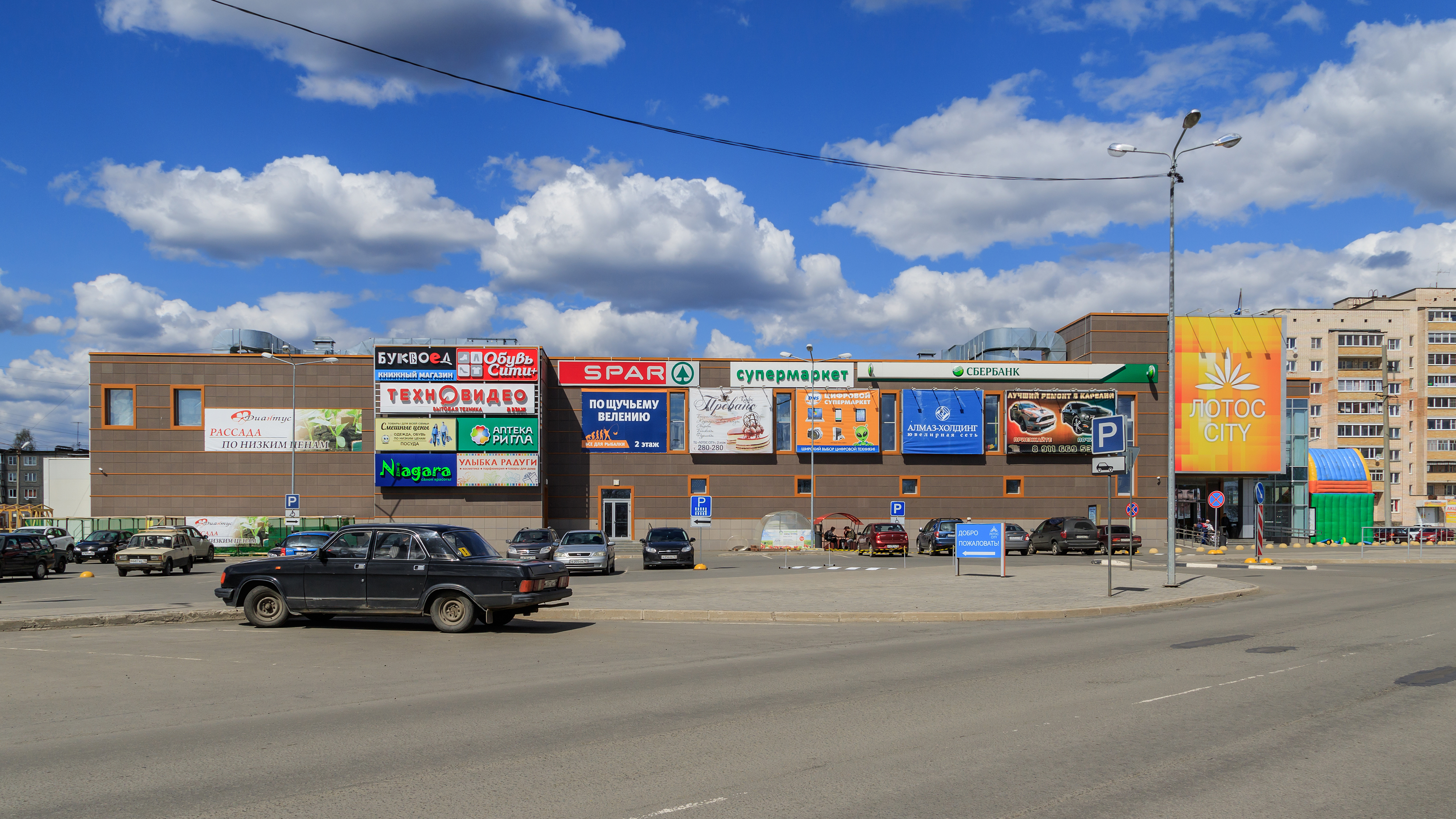 Lotos shopping mall in Kondopoga, Republic of Karelia (Russia).